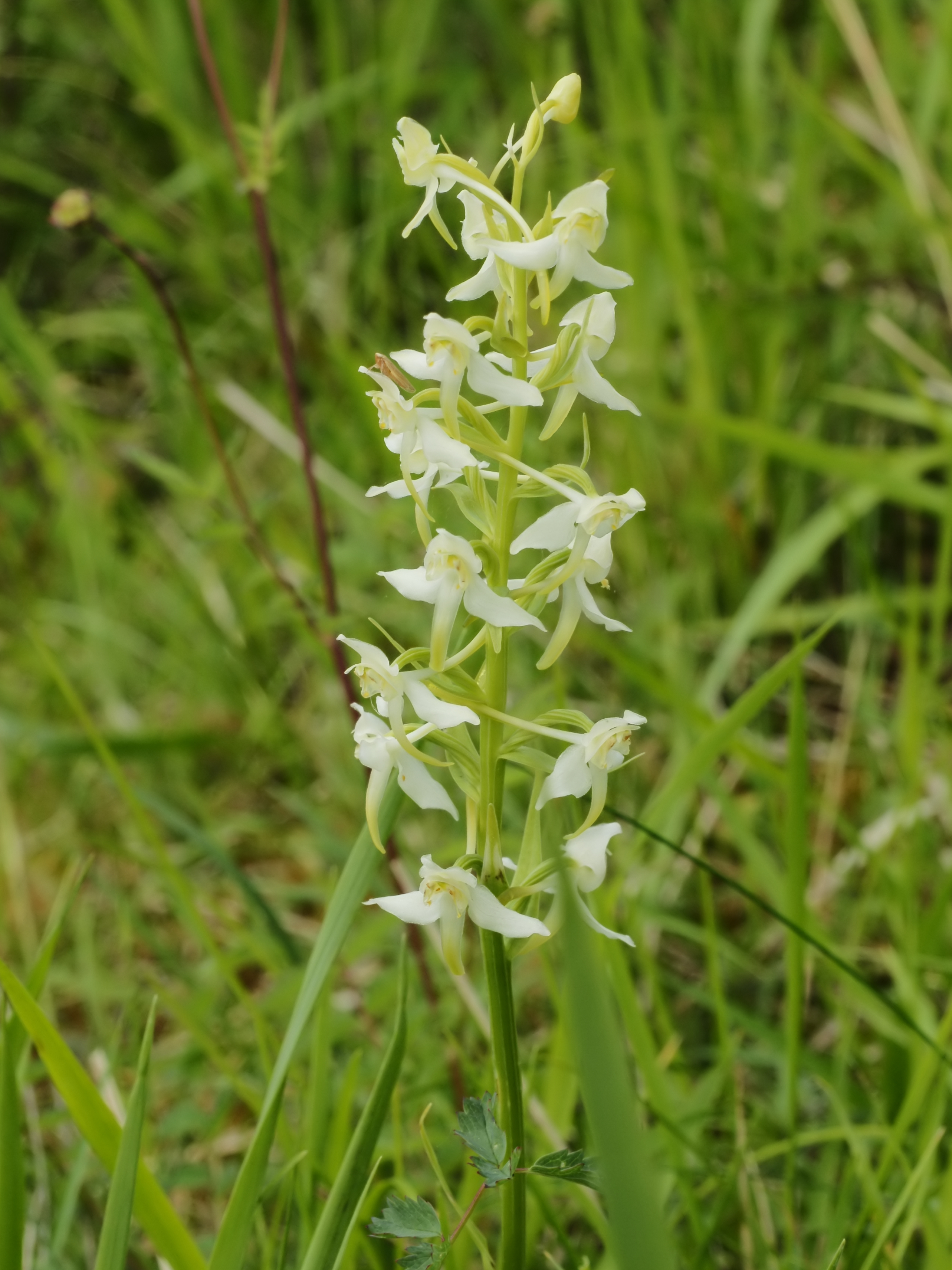 Greater butterfly orchid flowers.